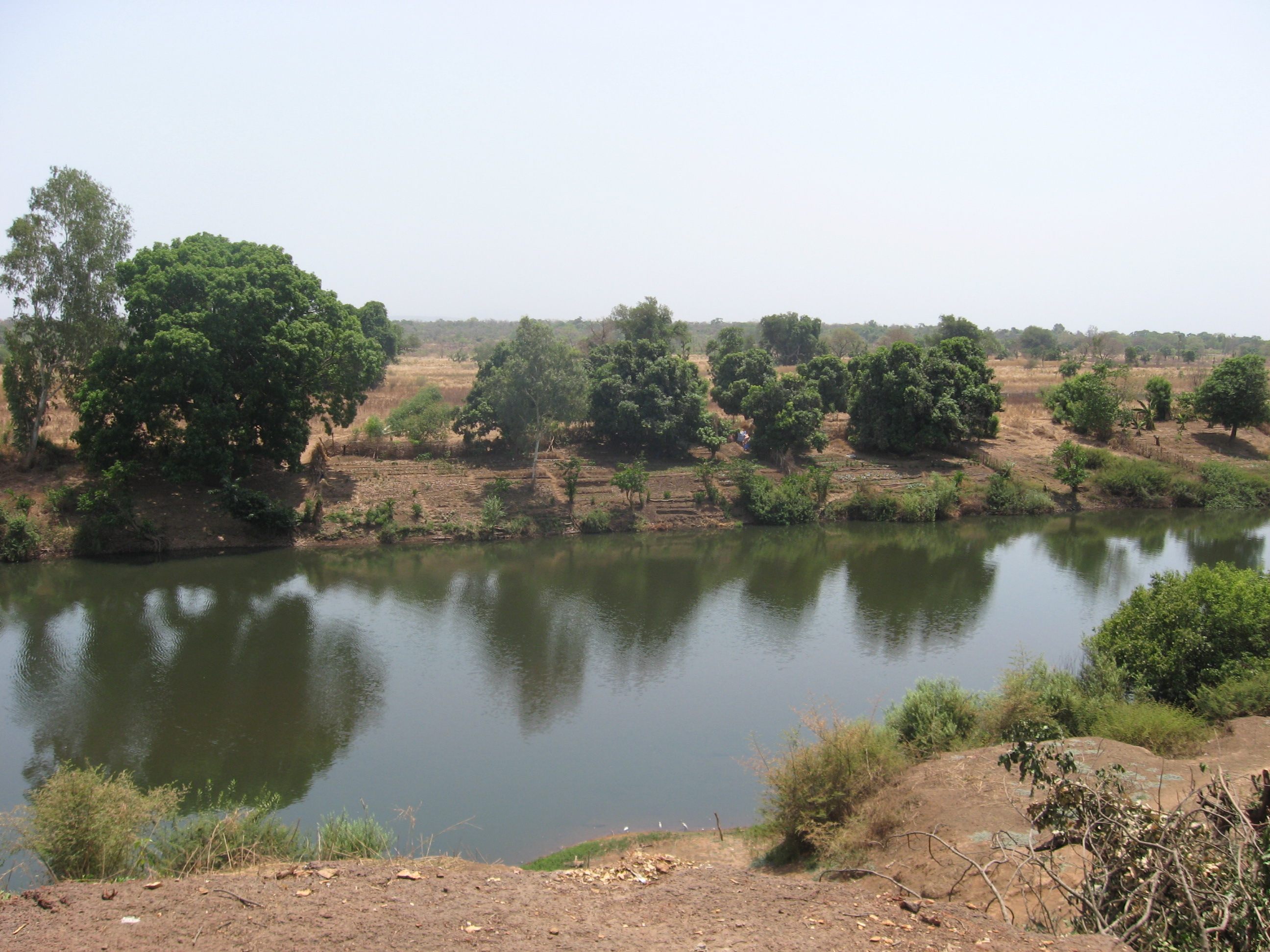 Gambia river near Kedougou (Senegal)